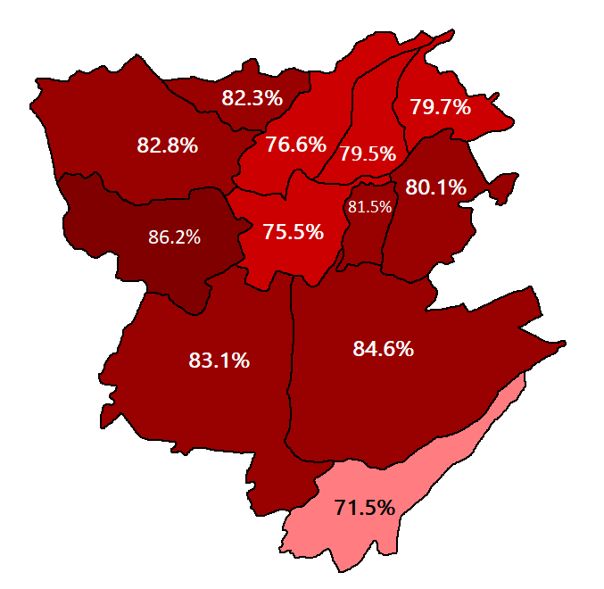 Percentage of total votes in favor of the My Step Alliance at the Yerevan City Council election, 2018